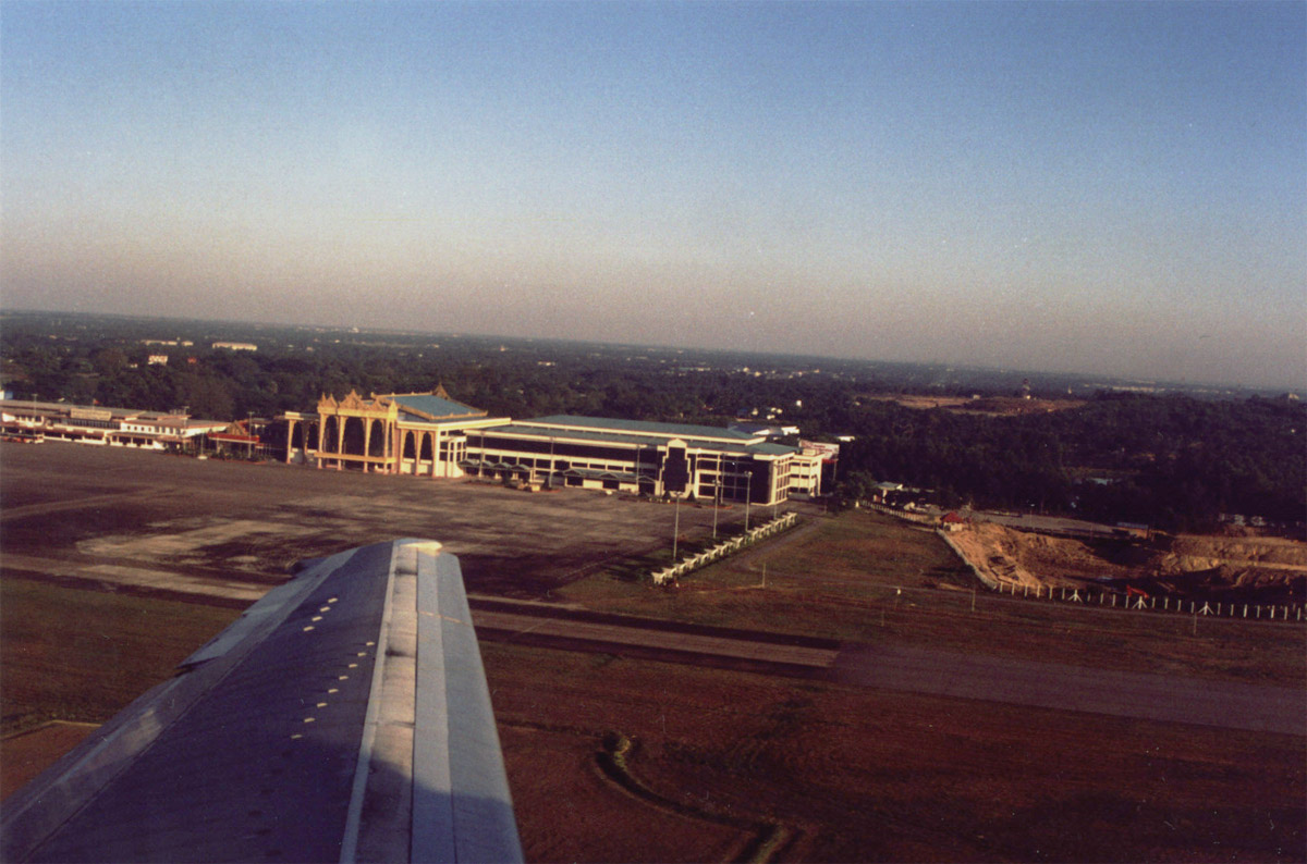 Yangon International Airport in 2002